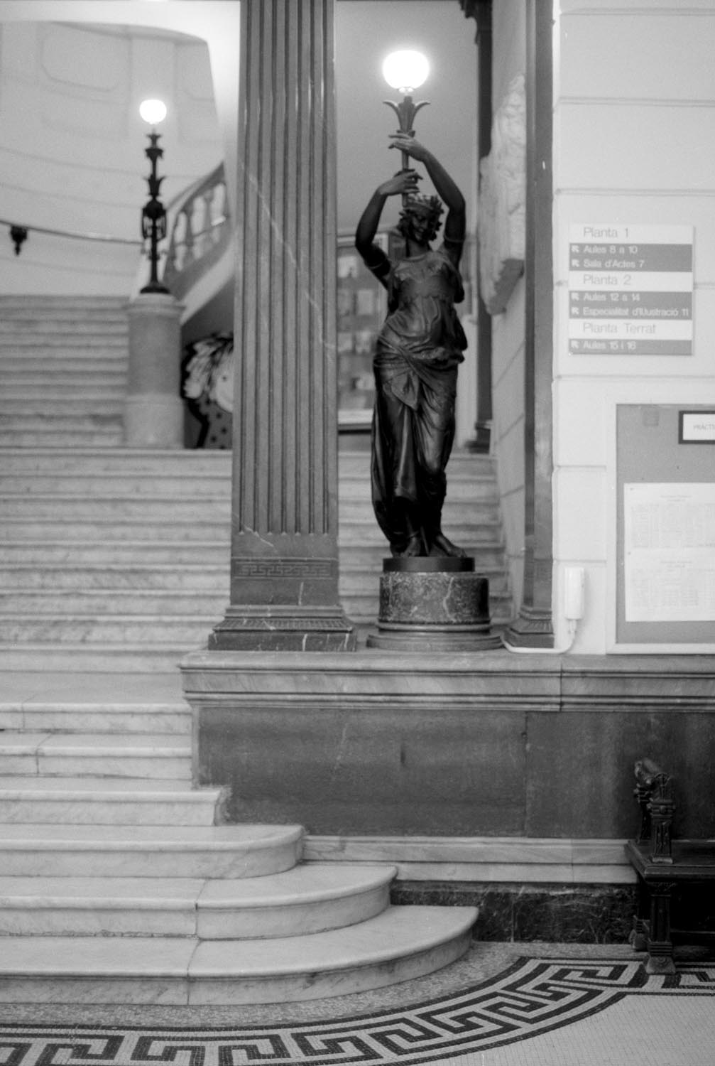 Main entrance from Llotja School of Arts, Barcelona